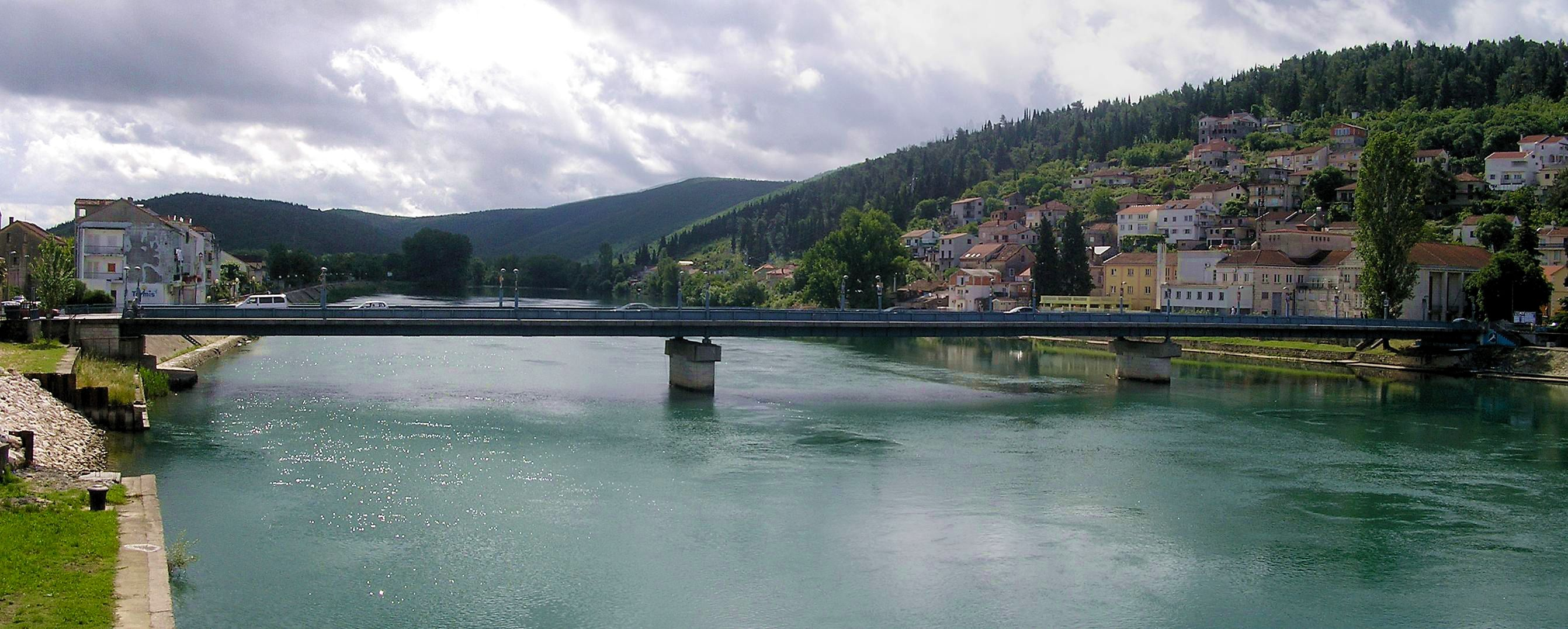 Harbor bridge in Metković, Croatia